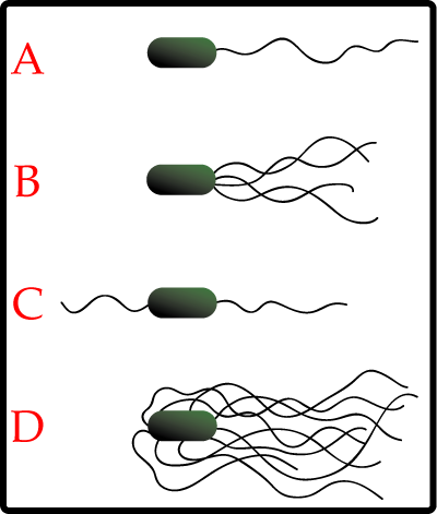 Examples of bacterial flagaella arrangement schemes.